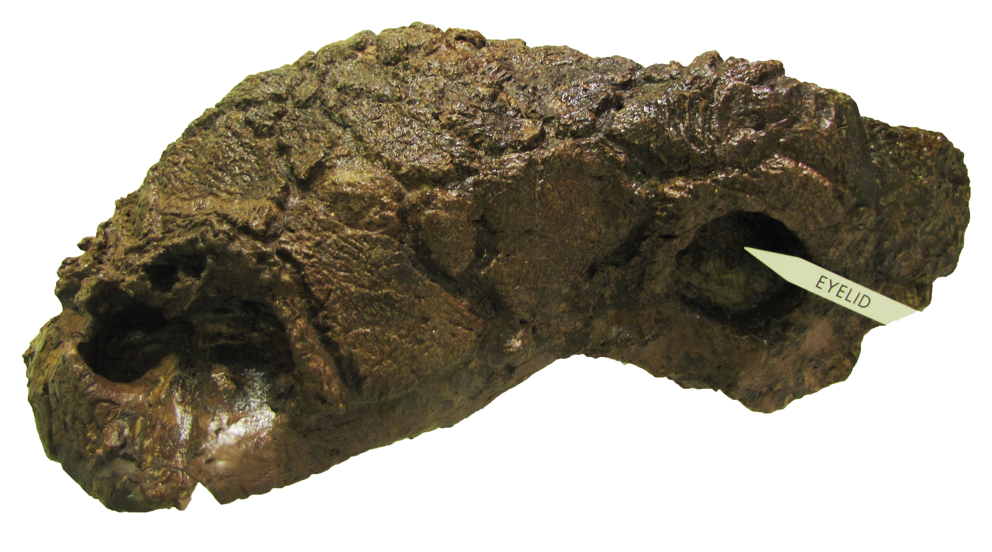 Skull of specimen AMNH 5404, referred to Scolosaurus cutleri (formerly referred to Euoplocephalus tulus) from the American Museum of Natural History, New York, U.S.